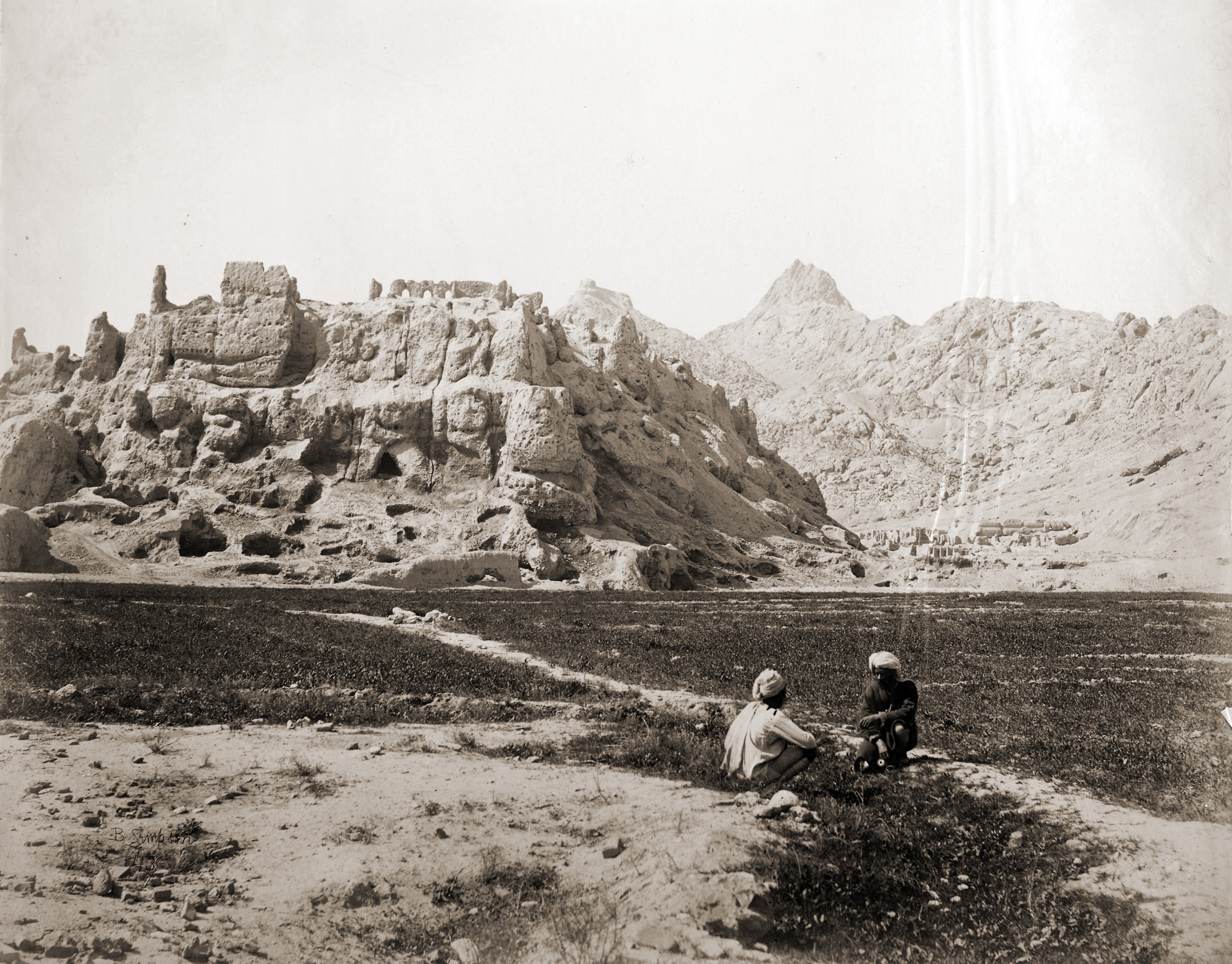 Ruins of old Kandahar Citadel. Photograph of the ruins of old Kandahar citadel from the 'Bellew Collection: Photograph album of Surgeon-General Henry Walter Bellew' taken by Sir Benjamin Simpson c.1881. Kandahar is the second largest city in Afghanistan and is situated in the south of the region. Although the old citadel was destroyed by Nadir Shah Afshar of Persia in 1738, the Battle of Maiwand was fought in its ruins in 1880. This conflict secured the rule of Abdur Rahman as the Amir of Afghanistan (1844-1901). At the top of this fortified citadel there are the ruins of a royal residence.